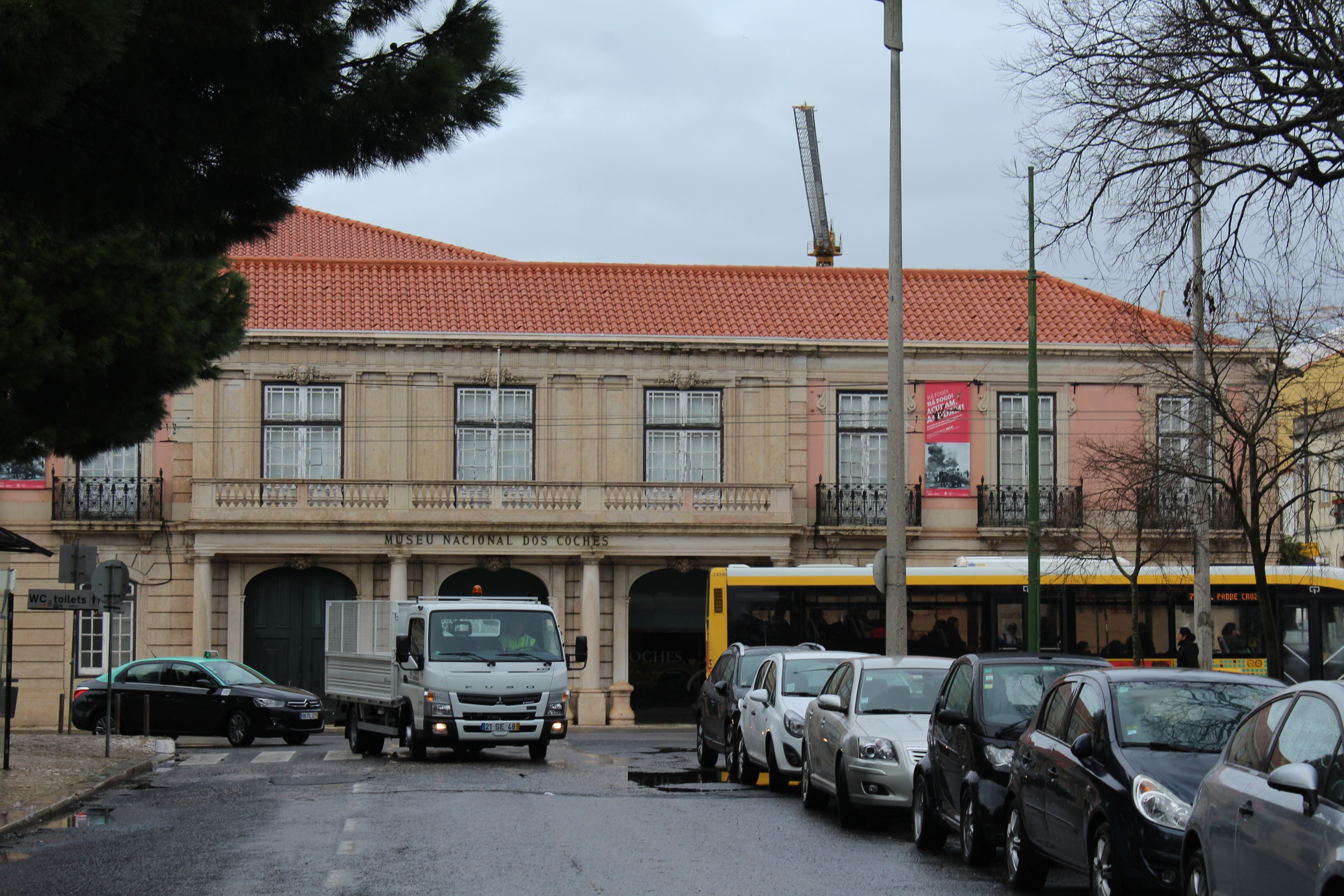 Lisbon, Museu Nacional dos Coches, the old building